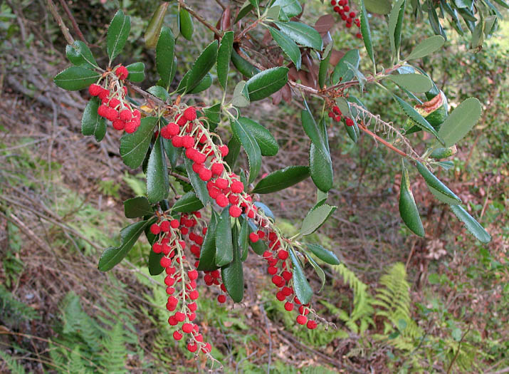 Comarostaphylis diversifolia ssp. planifolia — Summer holly. On the Backbone Trail above Tapia Park in Malibu Creek State Park — in the Santa Monica Mountains National Recreation Area, California. NPS photo, no copyright.